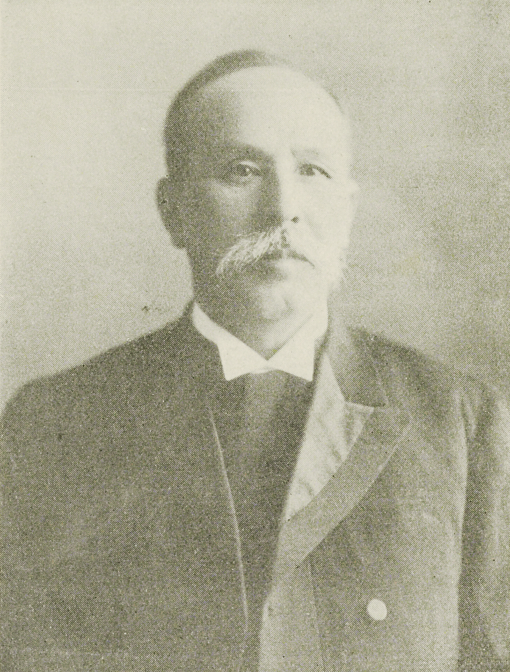 Portrait of Honda Yoitsu (本多庸一, 1849 – 1912)